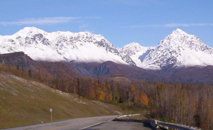 Mountains surrounding Sutton.